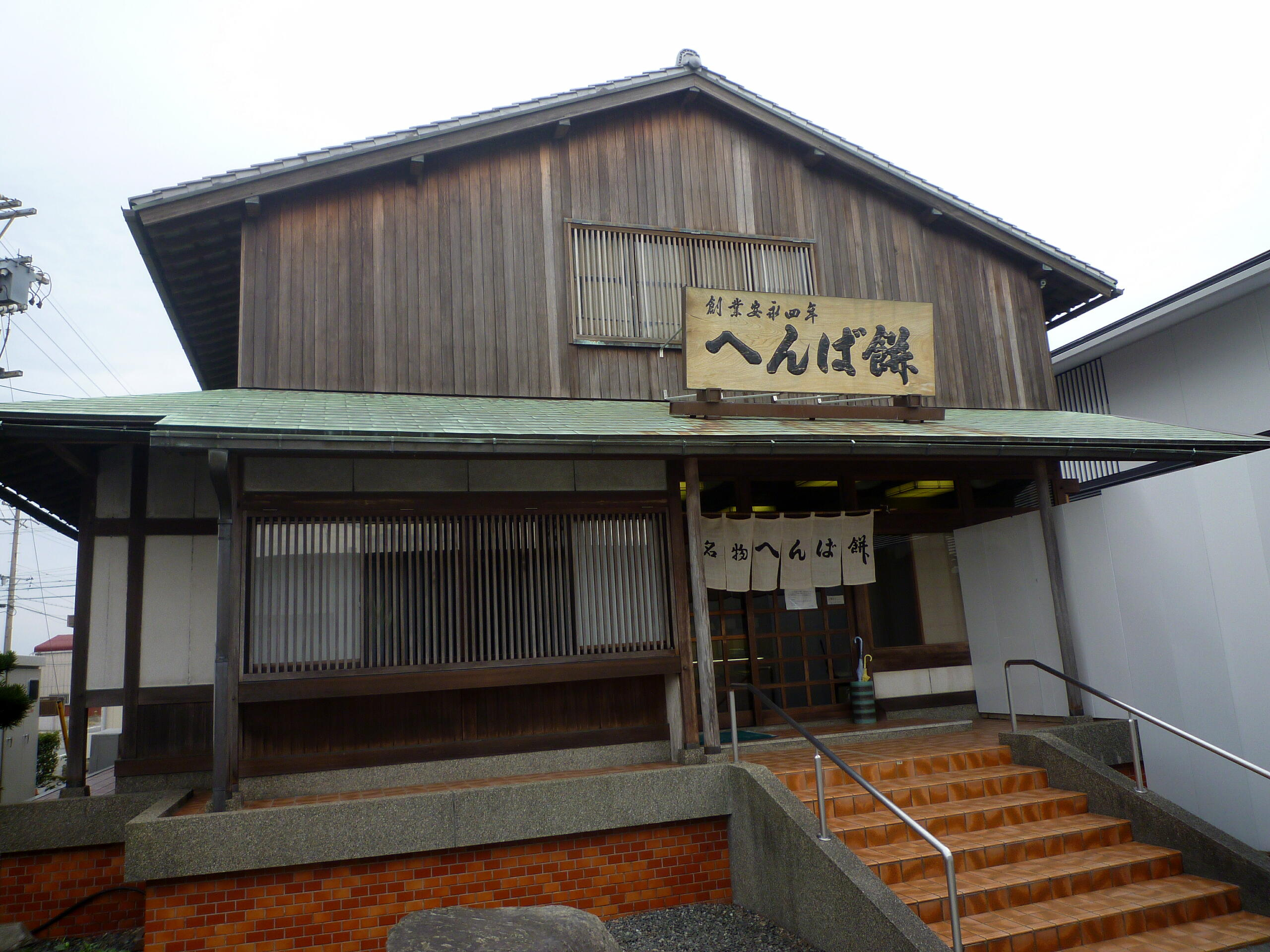 The "Henbaya Shōten Miyagawa-ten" in Nishi-Toyohama-chō, Ise, Mie, Japan.It is Wagashi "Henba-mochi" shop.